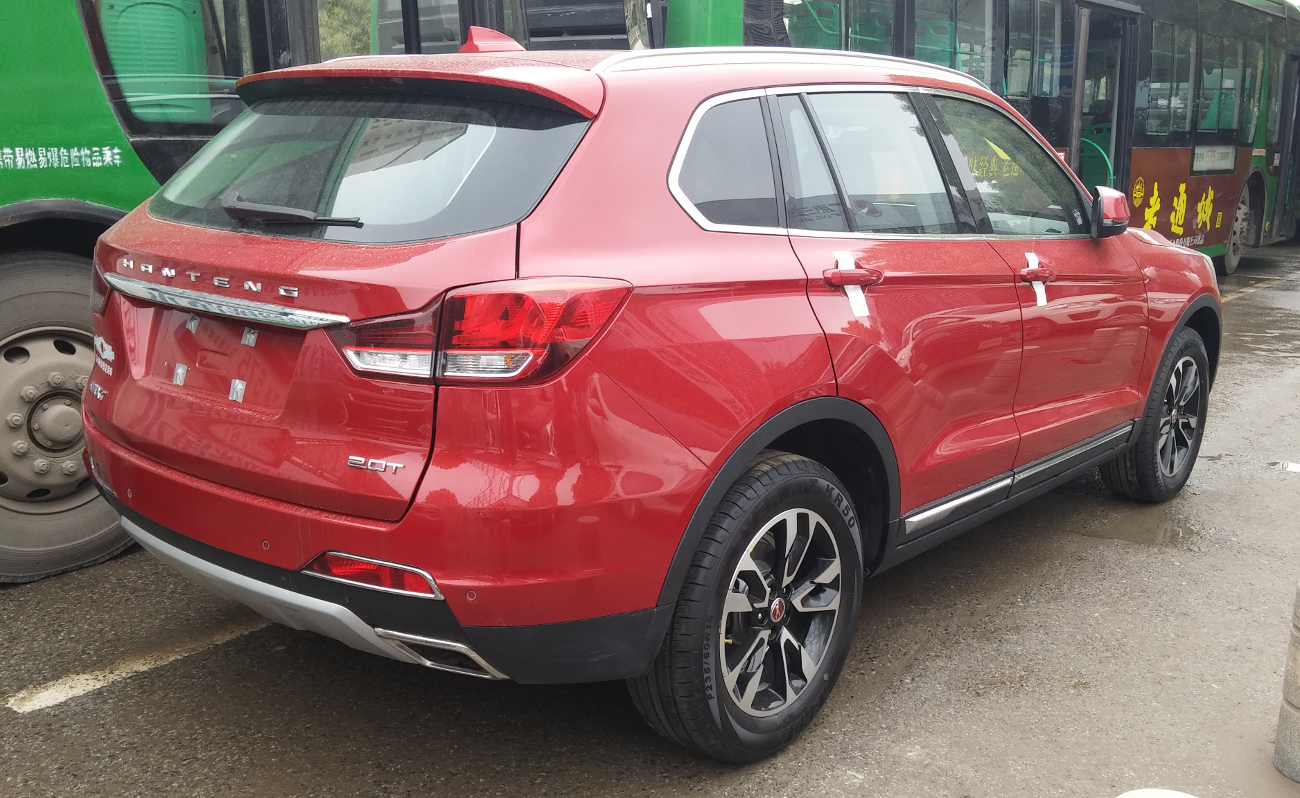 Hanteng X7 photographed in Wuhan, Hubei province, China.